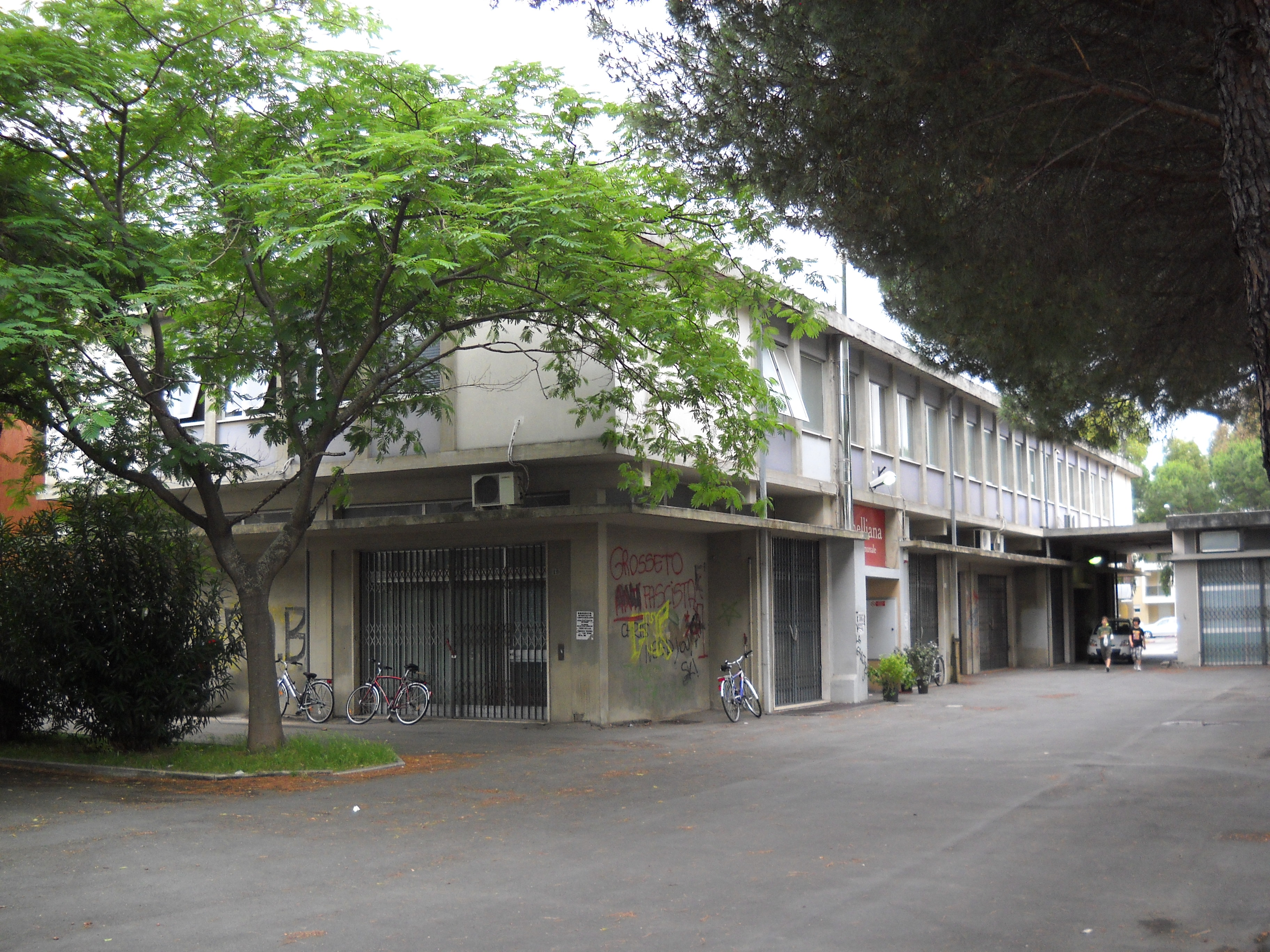 Chelliana Library in Piazza Cavalieri, Grosseto